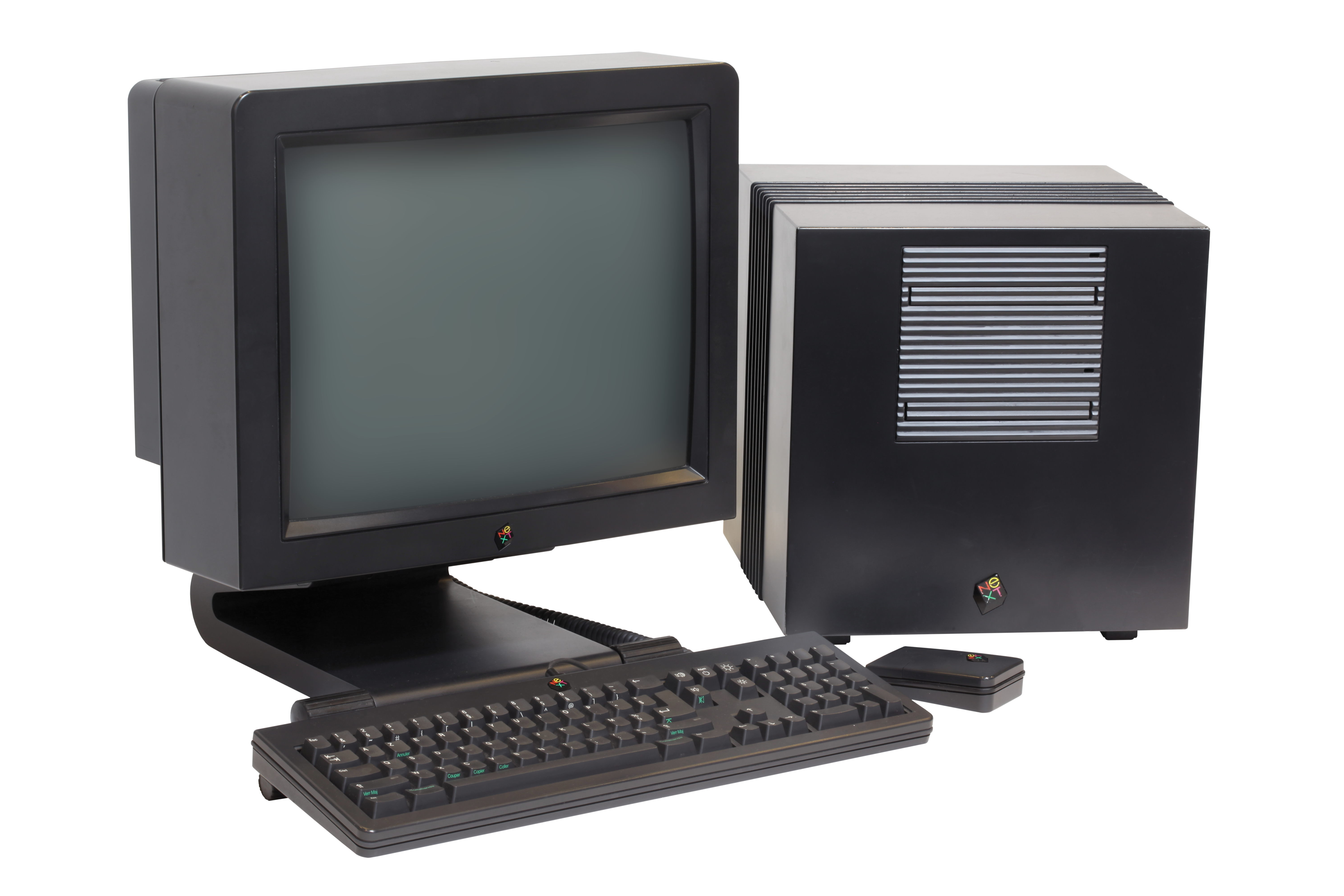 NeXTcube workstation. On display at the Musée Bolo, EPFL, Lausanne.